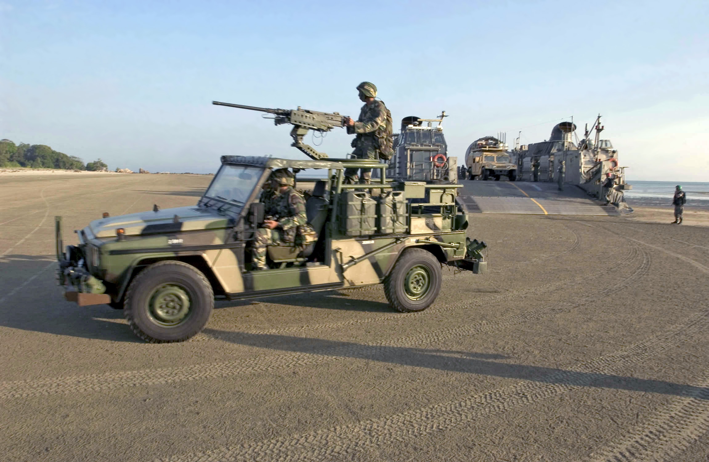 Paratroopers, 9th Royal Malay Regiment (RMR) (Malaysia), drive a Mercedes Benz G-class GD290 assault vehicle mounted with an M2 .50 caliber machine gun, from Landing Craft Air-Cushion 73 (LCAC-73), during an amphibious assault, in support of Exercise Cooperation Afloat Readiness and Training (CARAT) at Pahang, Malaysia (MYS).U.S. Navy official photo by Mass Communication Specialist Second Class John L. Beeman